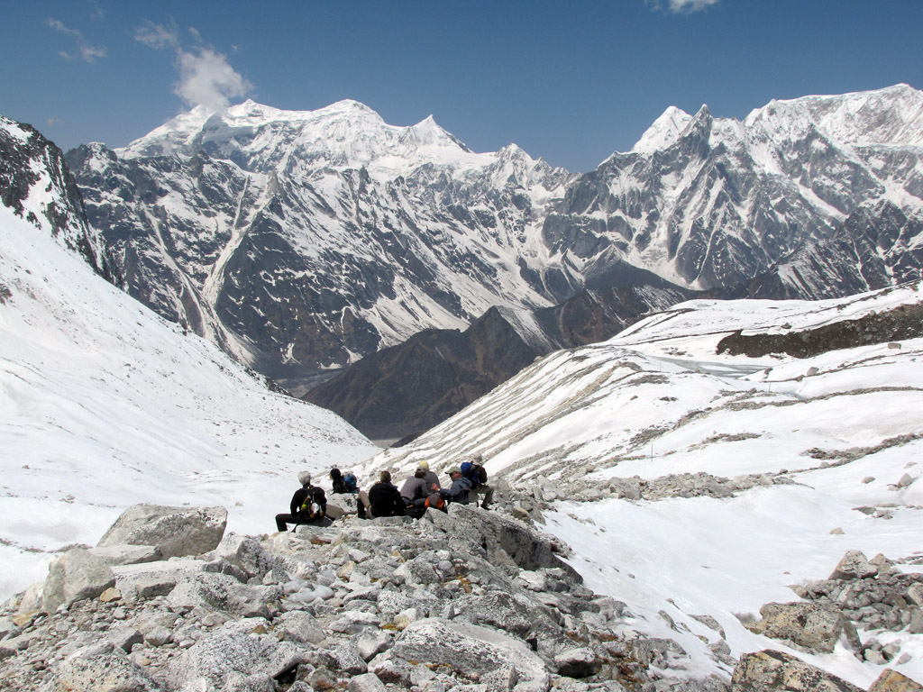 Manaslu Circuit trek, summit of pass